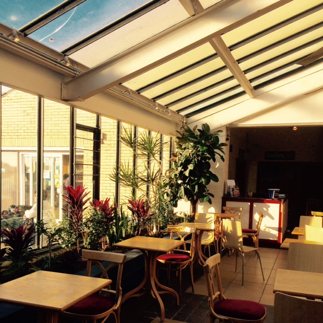 Alexandra Theatre, Bognor Regis